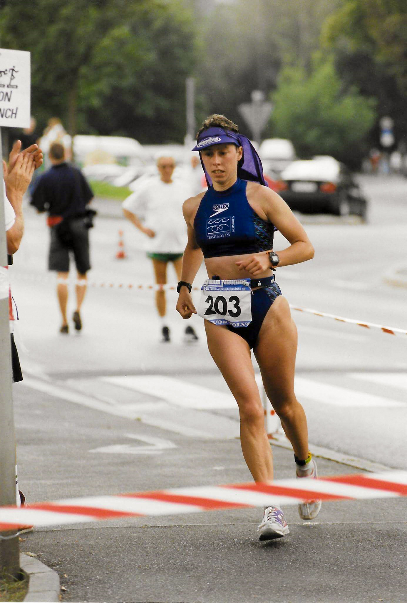 German Triathlet Sabine Heinrich during the "Iron Mönch"-Triathlon in Kulmbach on the 12. August of 2000.